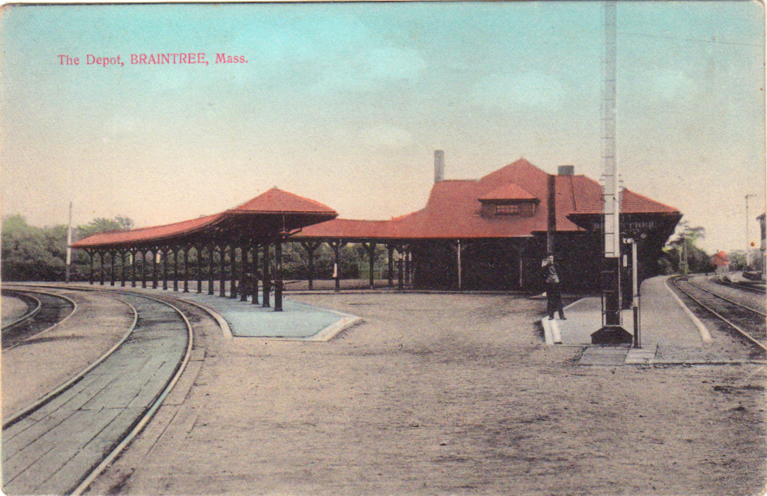 Early postcard of the Old Colony Railroad's Braintree station, located where the South Shore Line split from the Old Colony Mainline. (The modern Braintree station is not located at this site, but about a mile further south.)